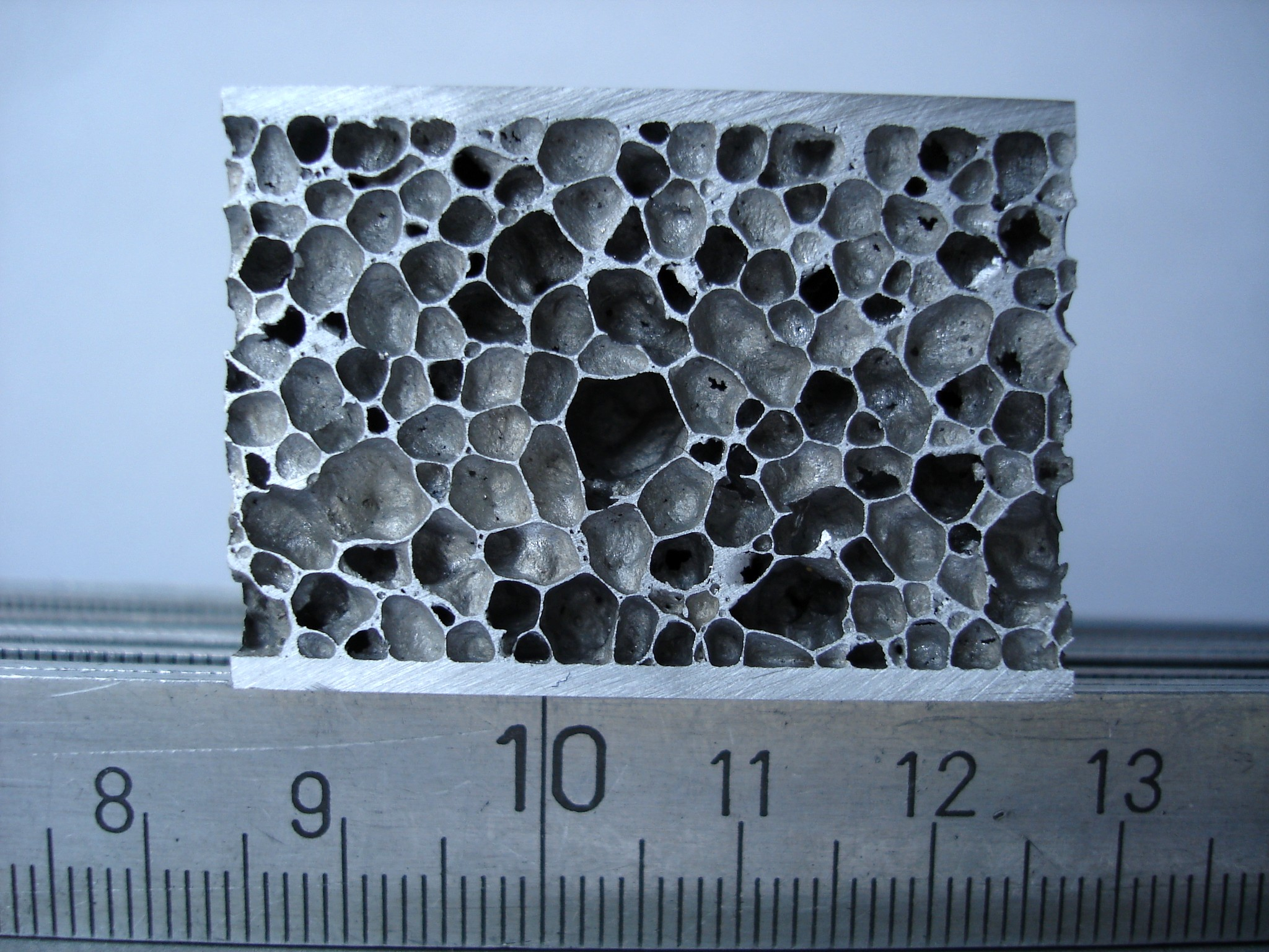 A photographic image of an aluminium foam sandwich produced by metalfoam company.